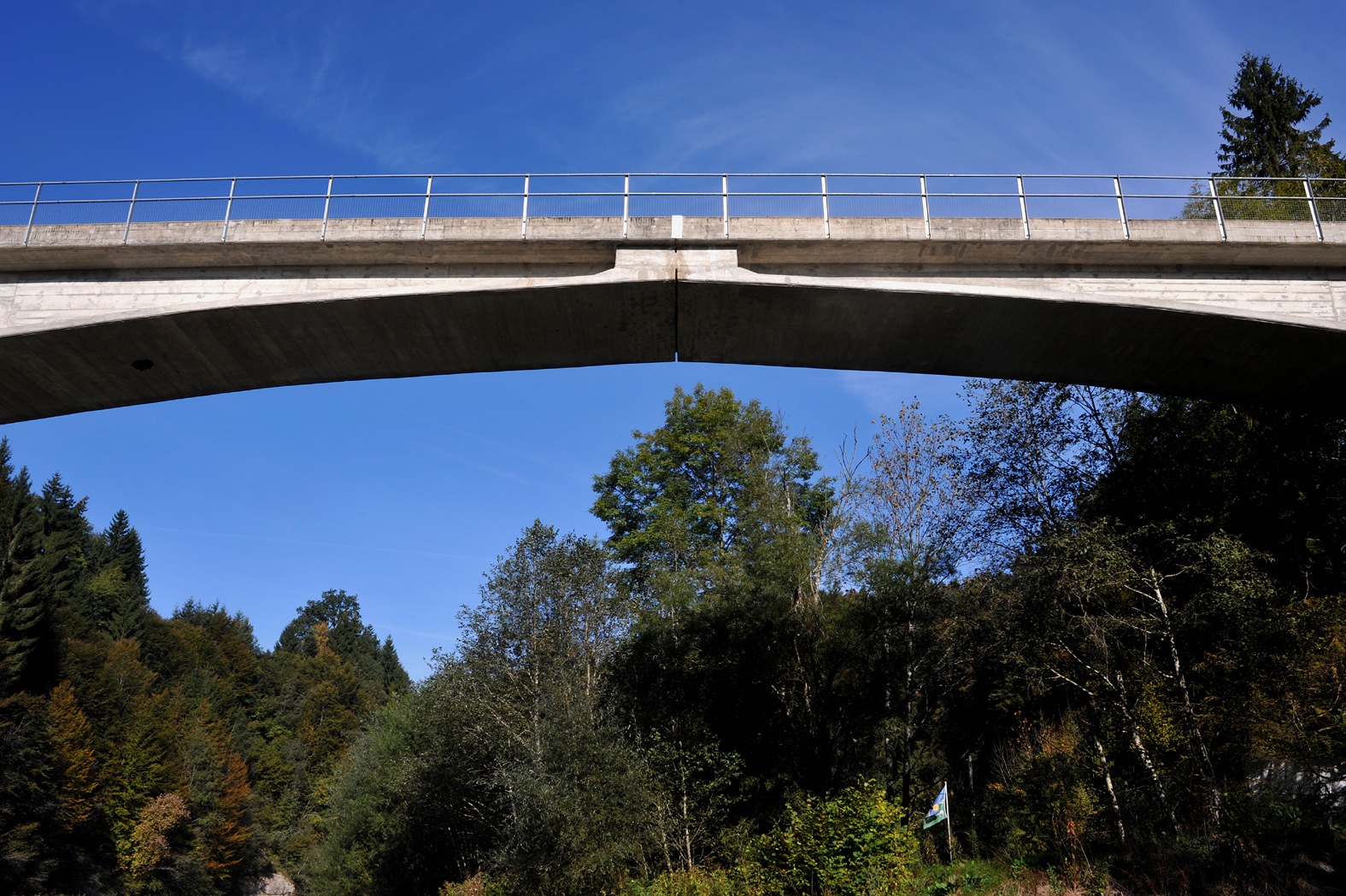 Rosssgraben bridge by Robert Maillart near Schwarzenburg, 1932; Berne, Switzerland Central hinge of the three-hinged arch.